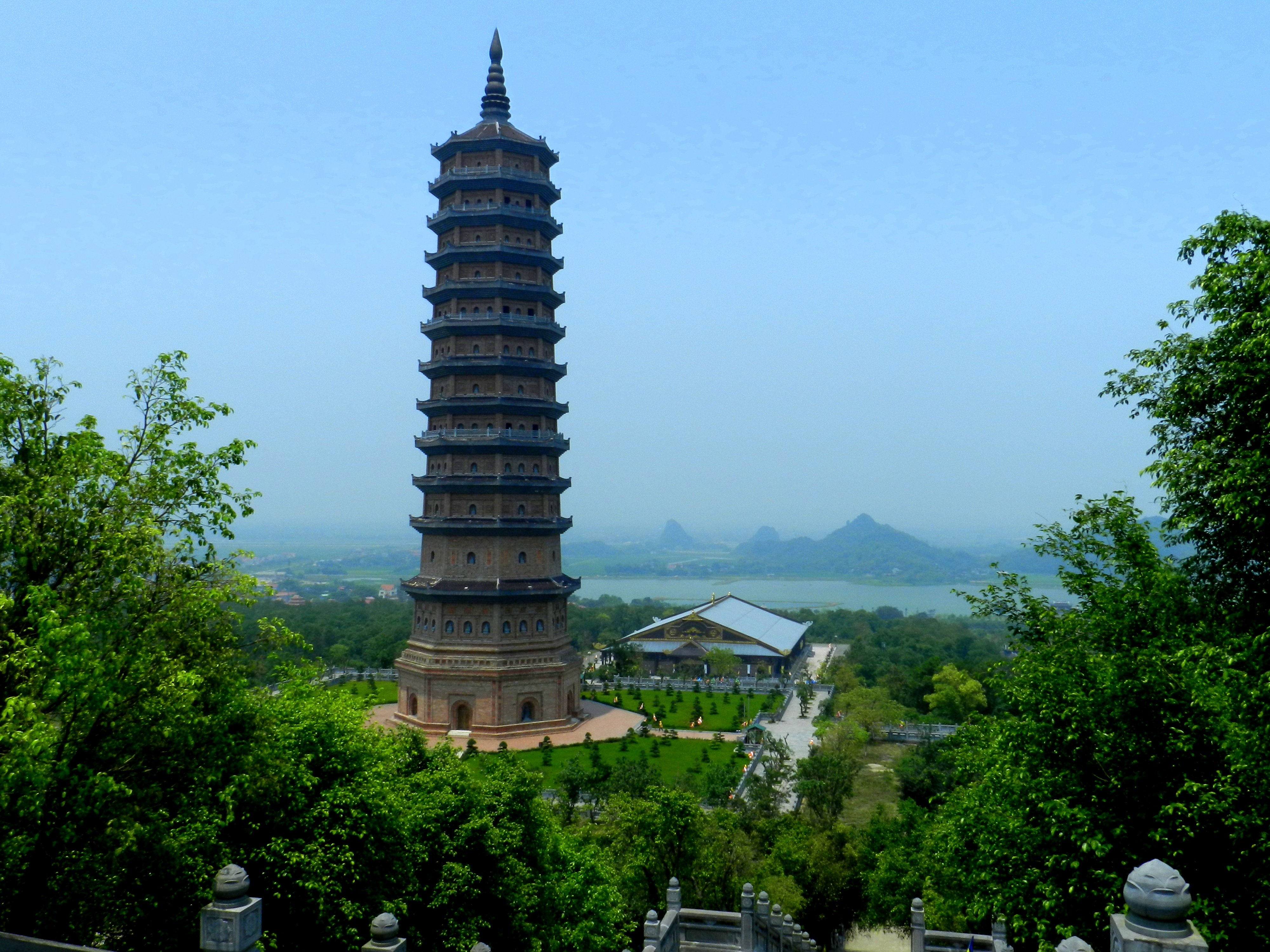 General view of the stupa in the Bai Dinh complex, Vietnam